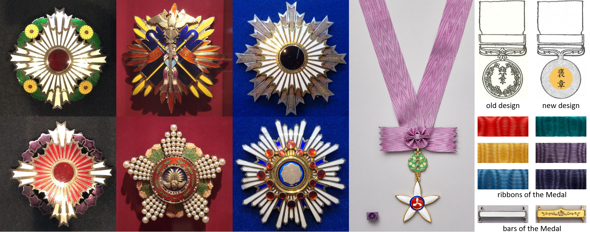 Displaying of japanese honours and medals